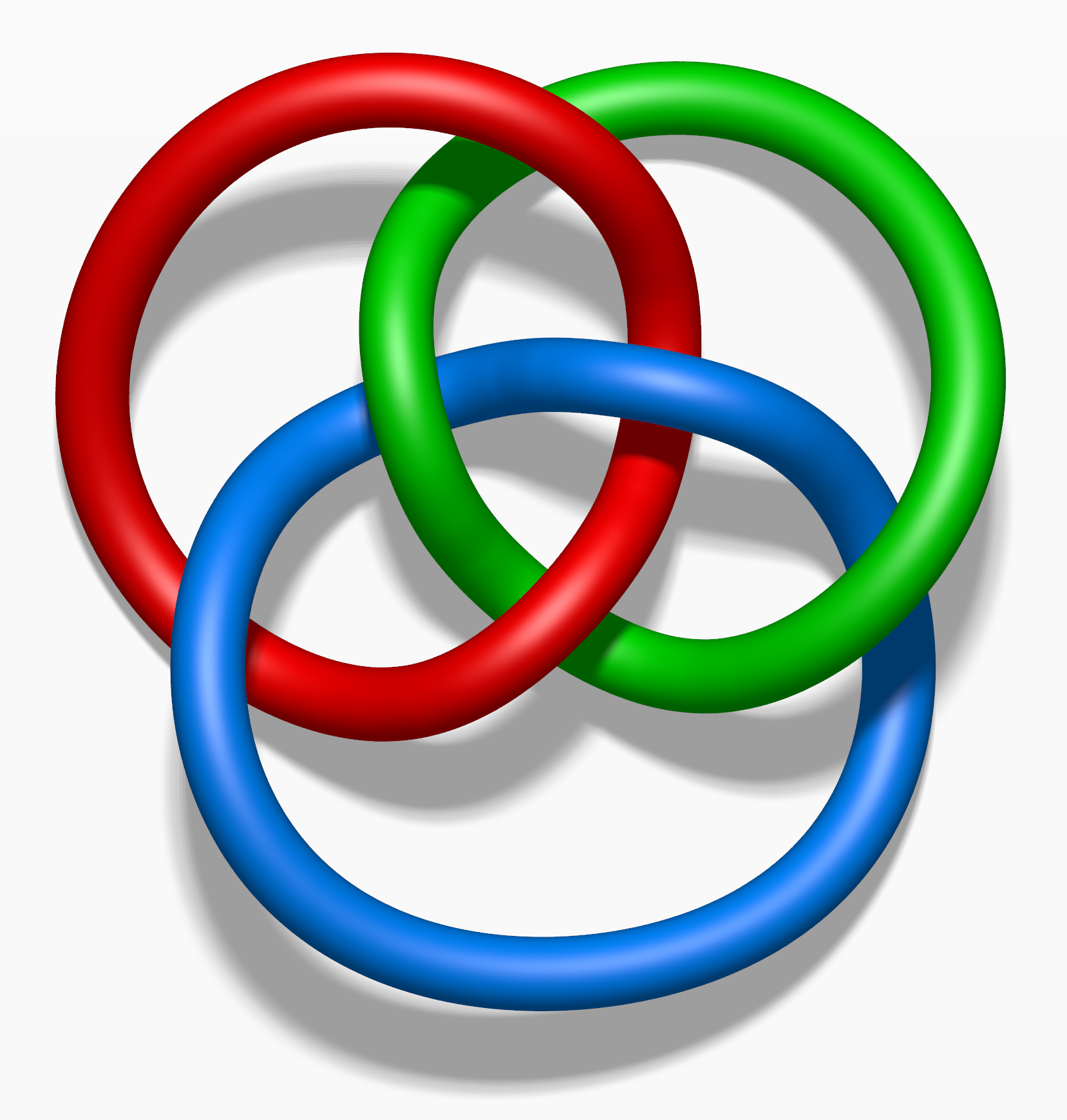 Borromean rings in three dimensions.